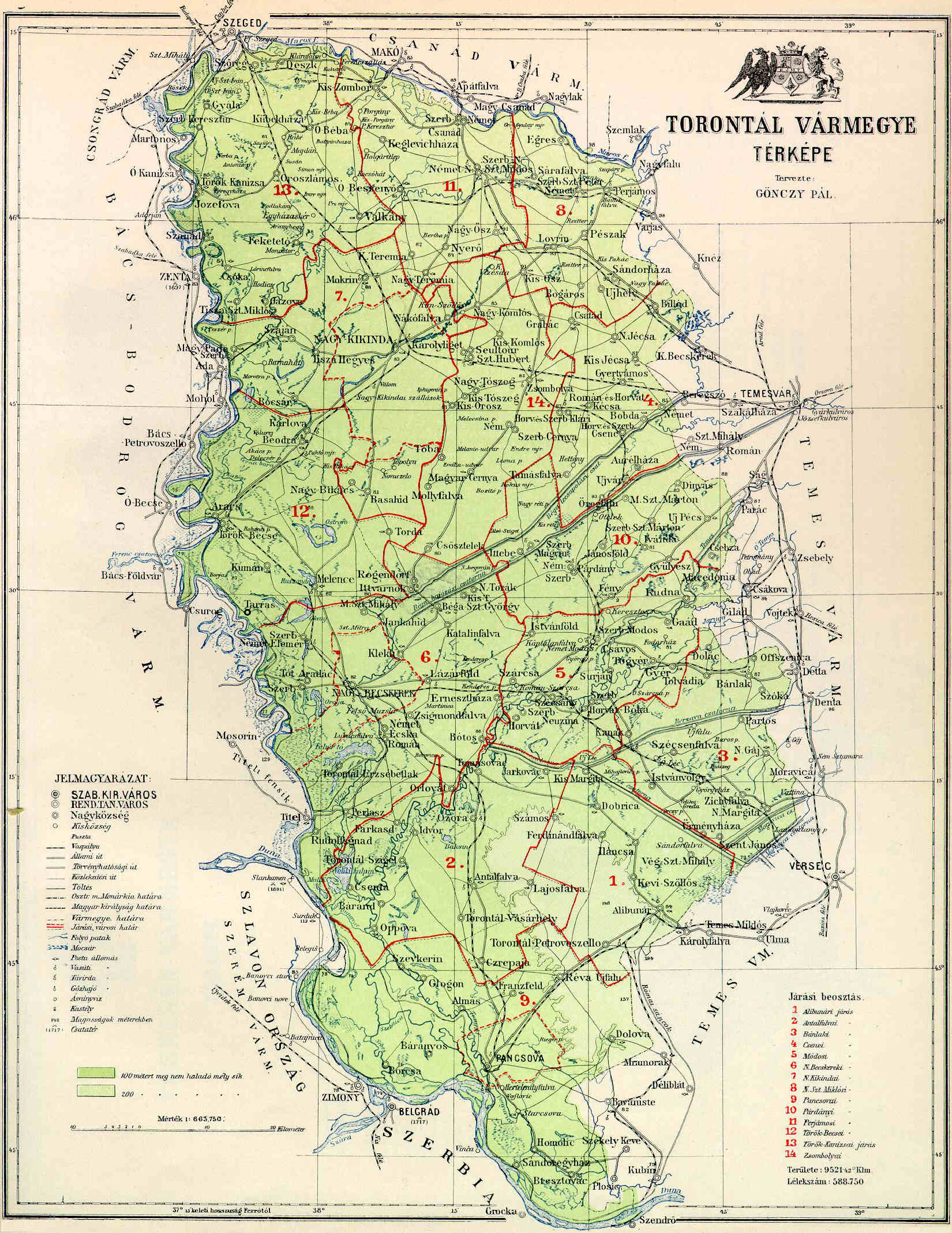 County of Torontál in the pre-Trianon Kingdom of Hungary. Komitat Torontál w Królestwie Węgier przed traktatem w Trianon.